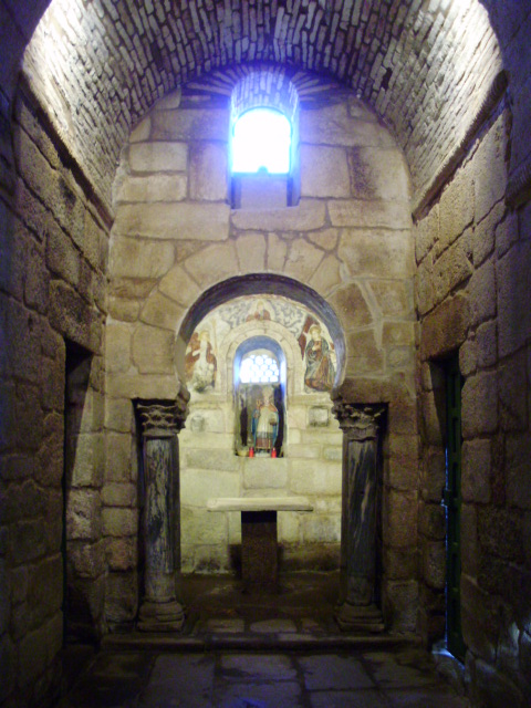 Visigothic church, Galicia, Spain, VII century